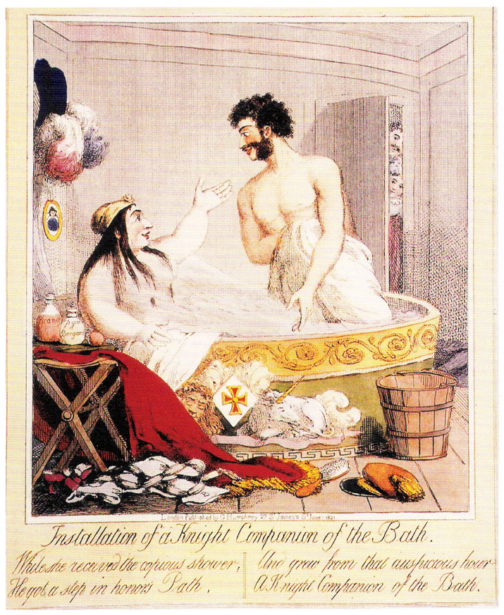 "Installation of a Knight Companion of the Bath" In this cartoon, Caroline, Princess of Wales and Bartolomeo Pergami, her head servant, share a bath. Caroline is showered by a spray from Pergami's crotch.